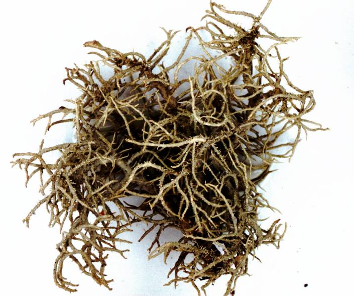 Usnea hirta (L.) F.H. Wigg., 1780 Photograph of a herbarium specimen showing abundant isidia along the branches. Usnea hirta was growing on bark near the Endless Mountain Retreat, S on County Road 601, approximately 2.4 miles from US 250 in Highland County, Virginia, USA; collected by E.C. Uebel, identified by Don Flenniken (No. U-411, 8 Jun 2001).